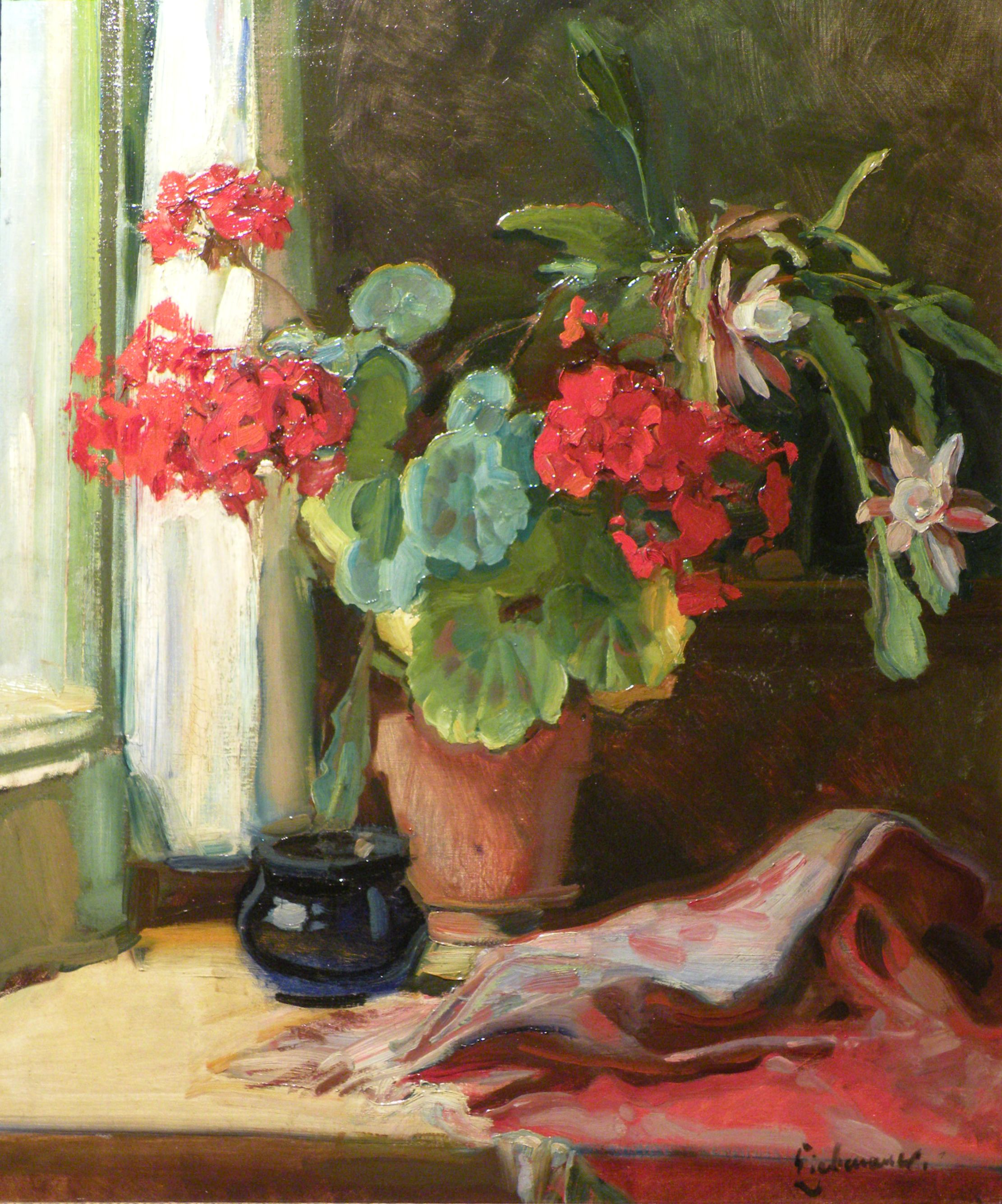 Ernst Liebenauer: Geranium at the window (Oil 49x59cm)